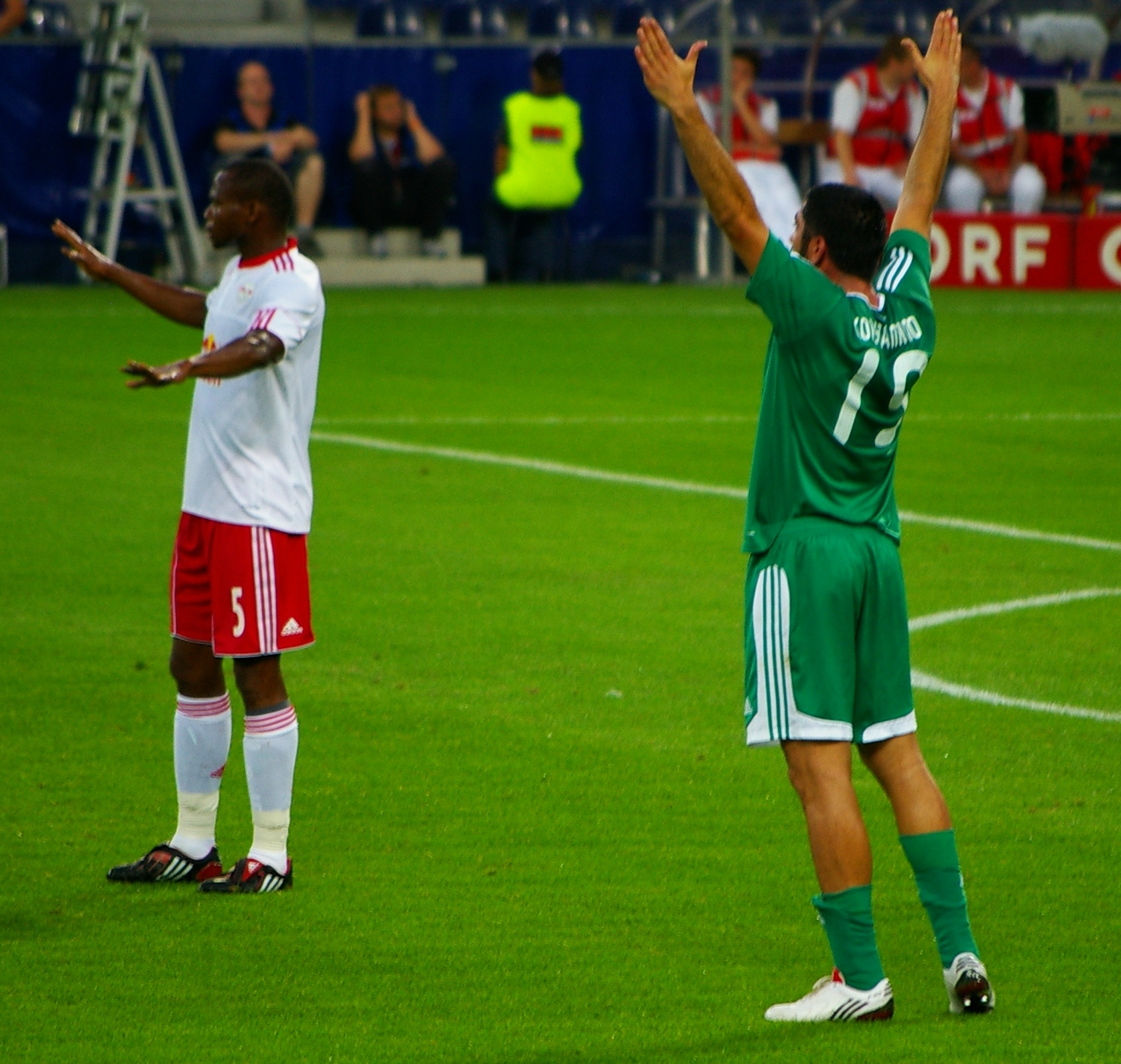 forward A. C. Omonia Nicosia